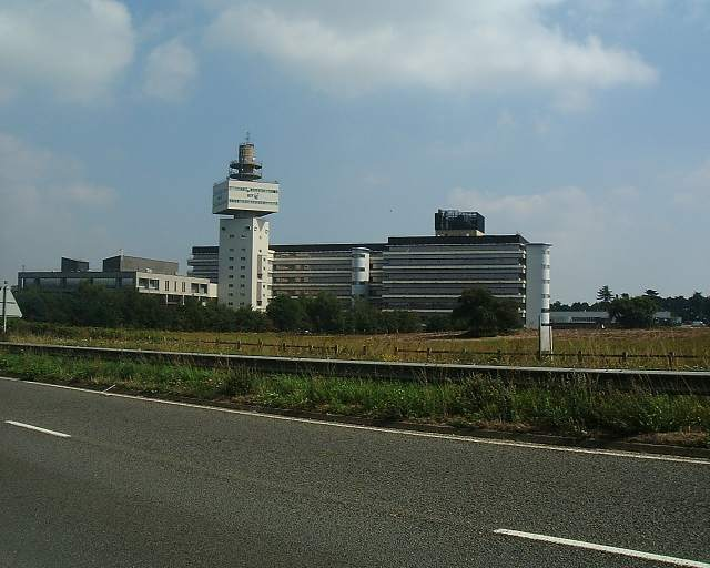 BT Adastral Park, Ipswich, UK